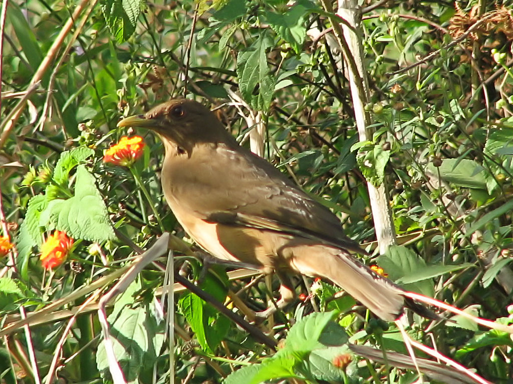 Clay-coloured Thrush (Turdus grayi) taken near San José, Costa Rica